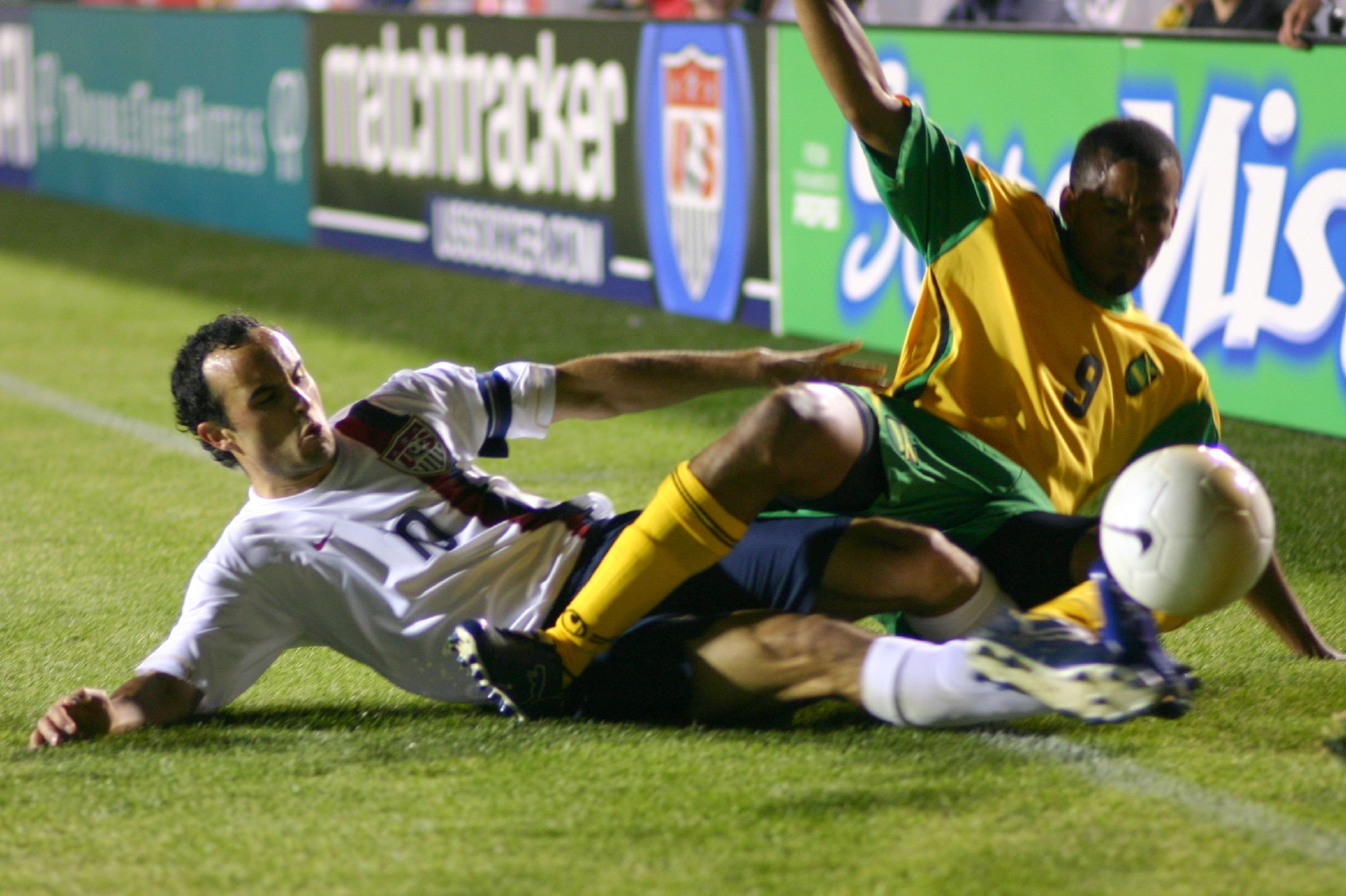 Landon Donovan of the United States clashes with Fabian Dawkins of Jamaica.